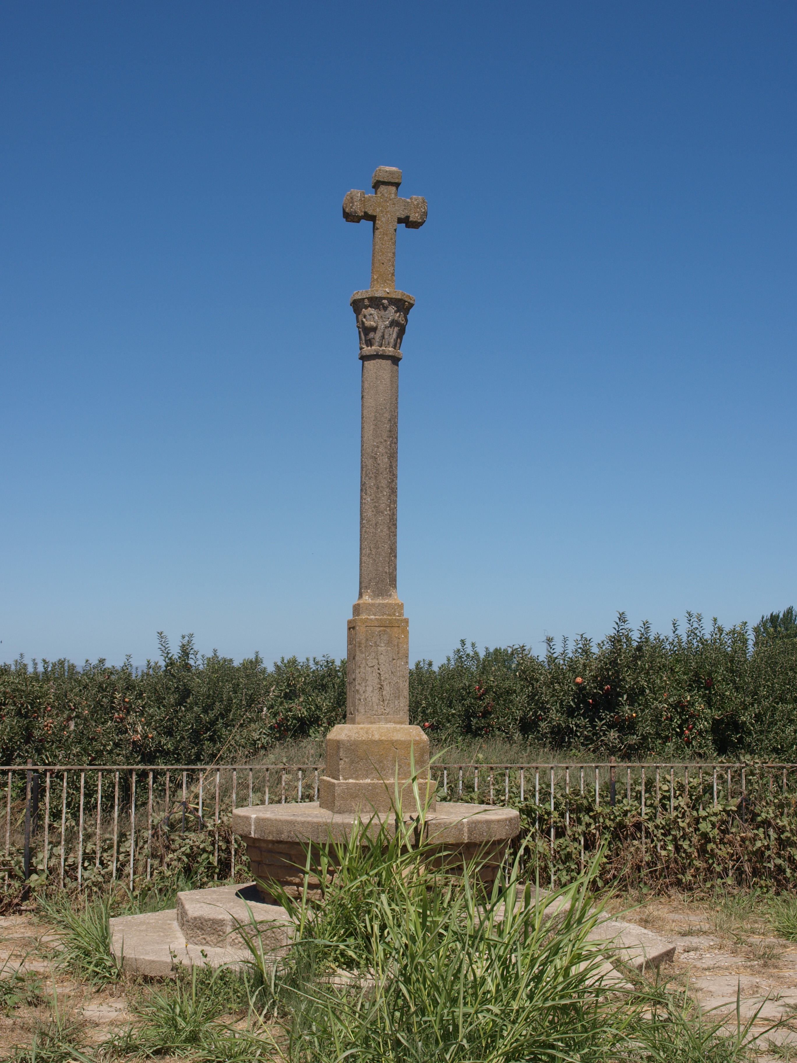 Cross used to signal the boundaries of villages